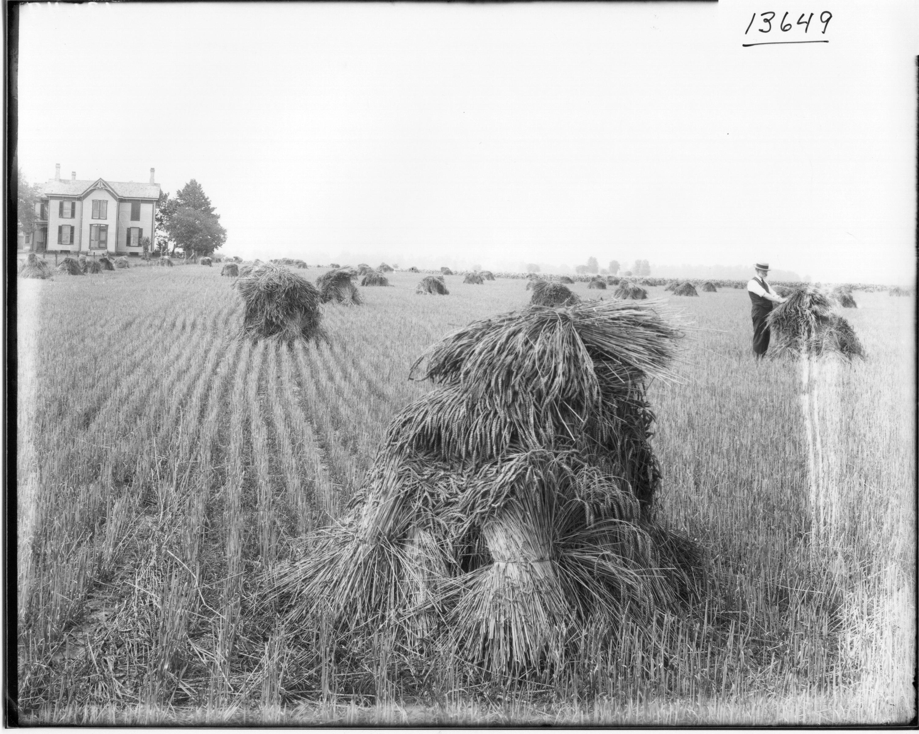 Persistent URL: Subject (TGM): Farms; Croplands; Farmhouses; Wheat; Location: Oxford, Ohio Shows one man, house and wheat stacks in picture. Picture taken for A. D. Douglas.